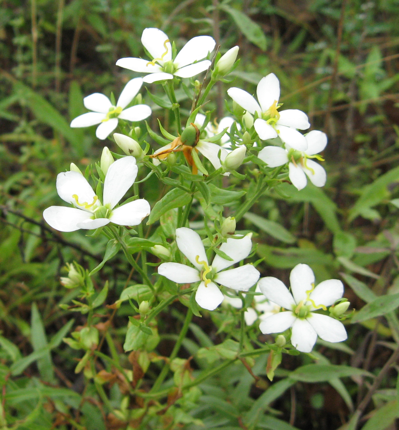 Sabatia angularis (white flowered form), Catoosa Wildlife Management Area, Cumberland County, Tennessee.